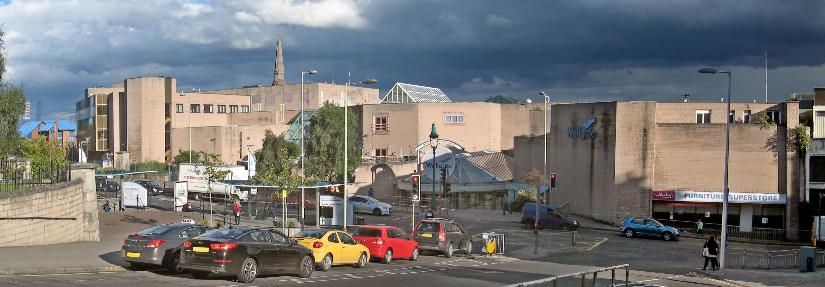 Wellgate Centre Dundee, Victoria Road Entrance at the foot of the Hilltown (Composite Image)